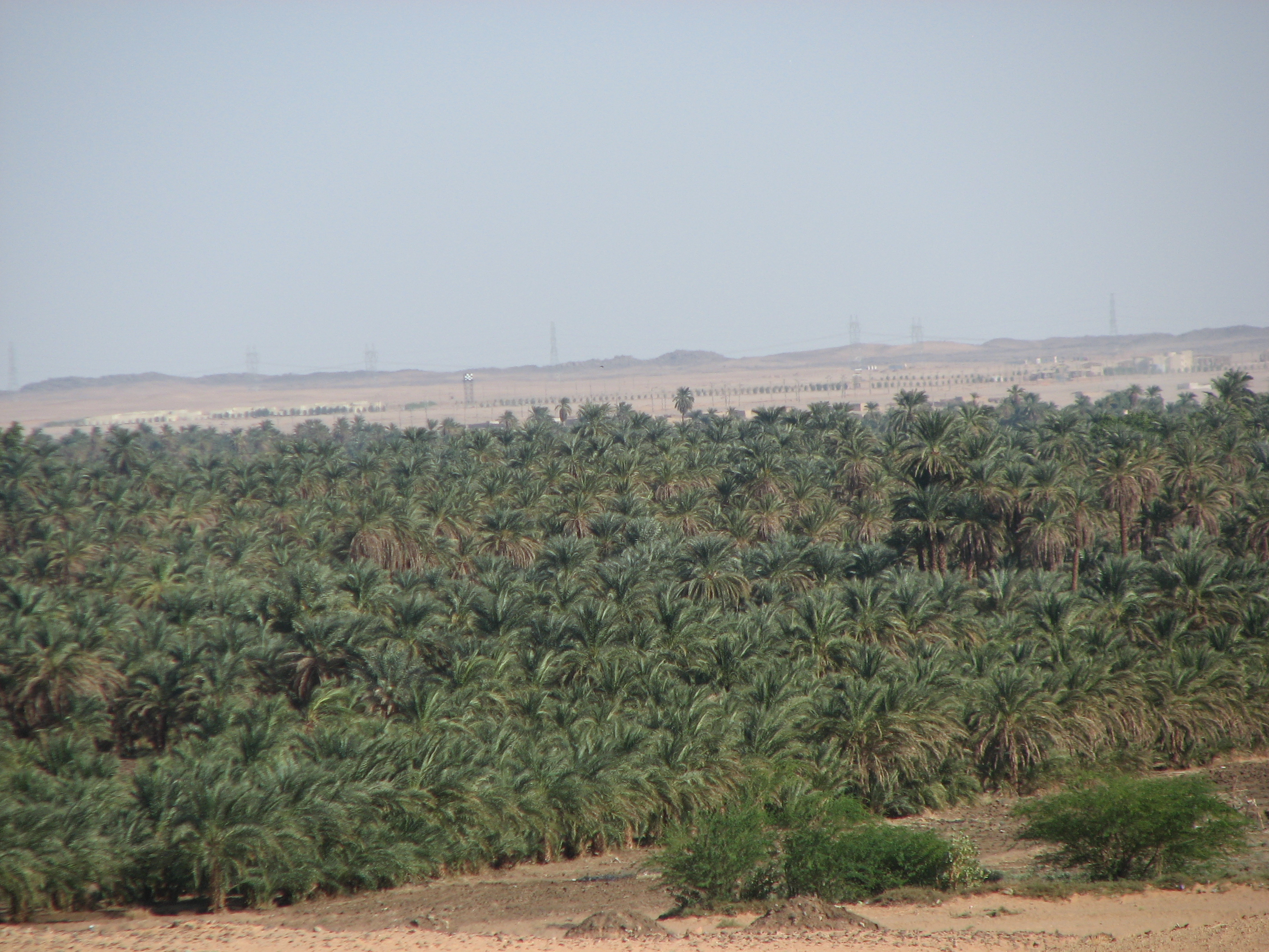 Date Palm orchard in Dar al-Manasir, northern Sudan.